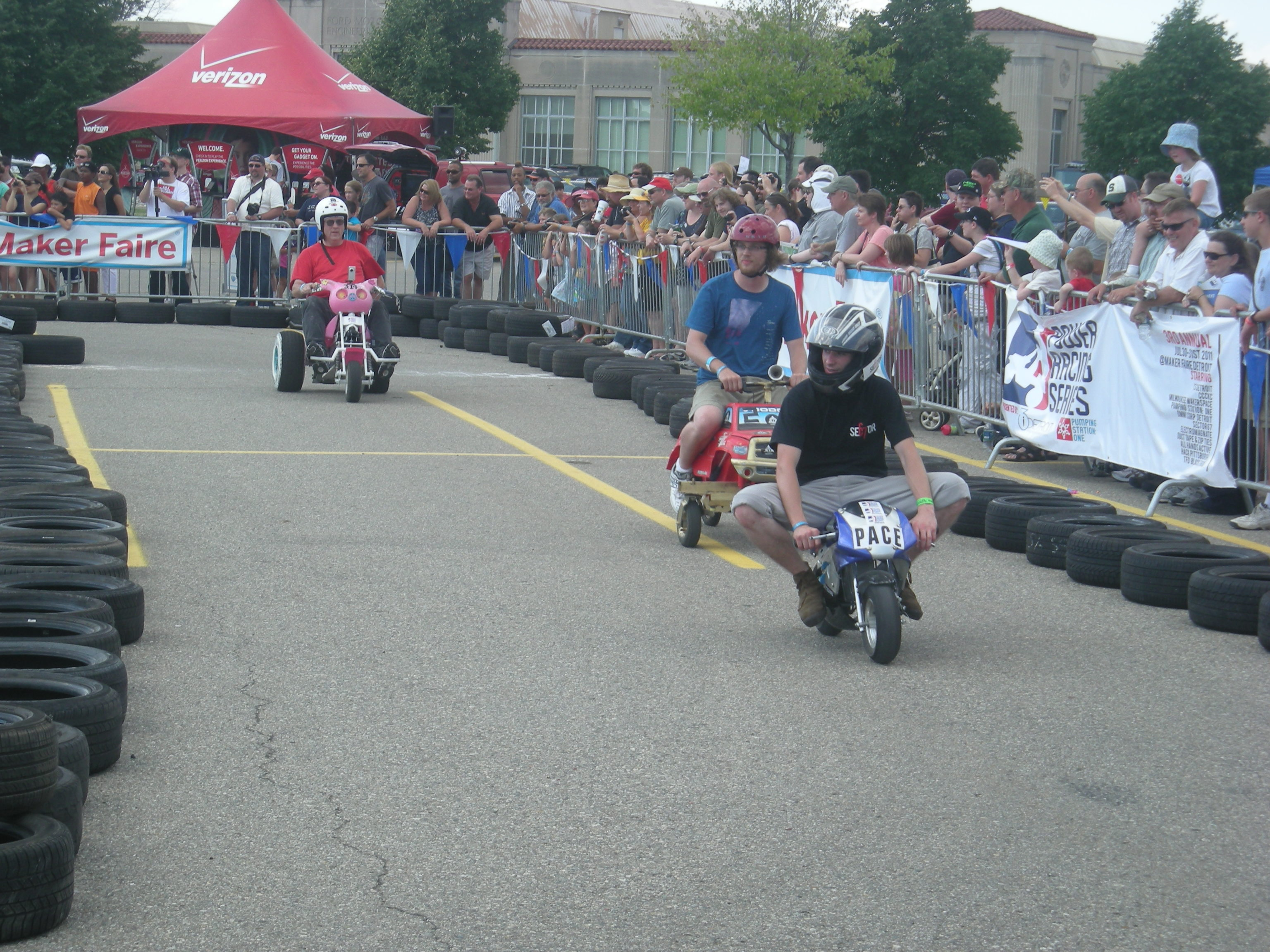 Action from the Power Racing Series at Maker Faire Detroit 2011 at the Henry Ford in Dearborn, Michigan (United States).